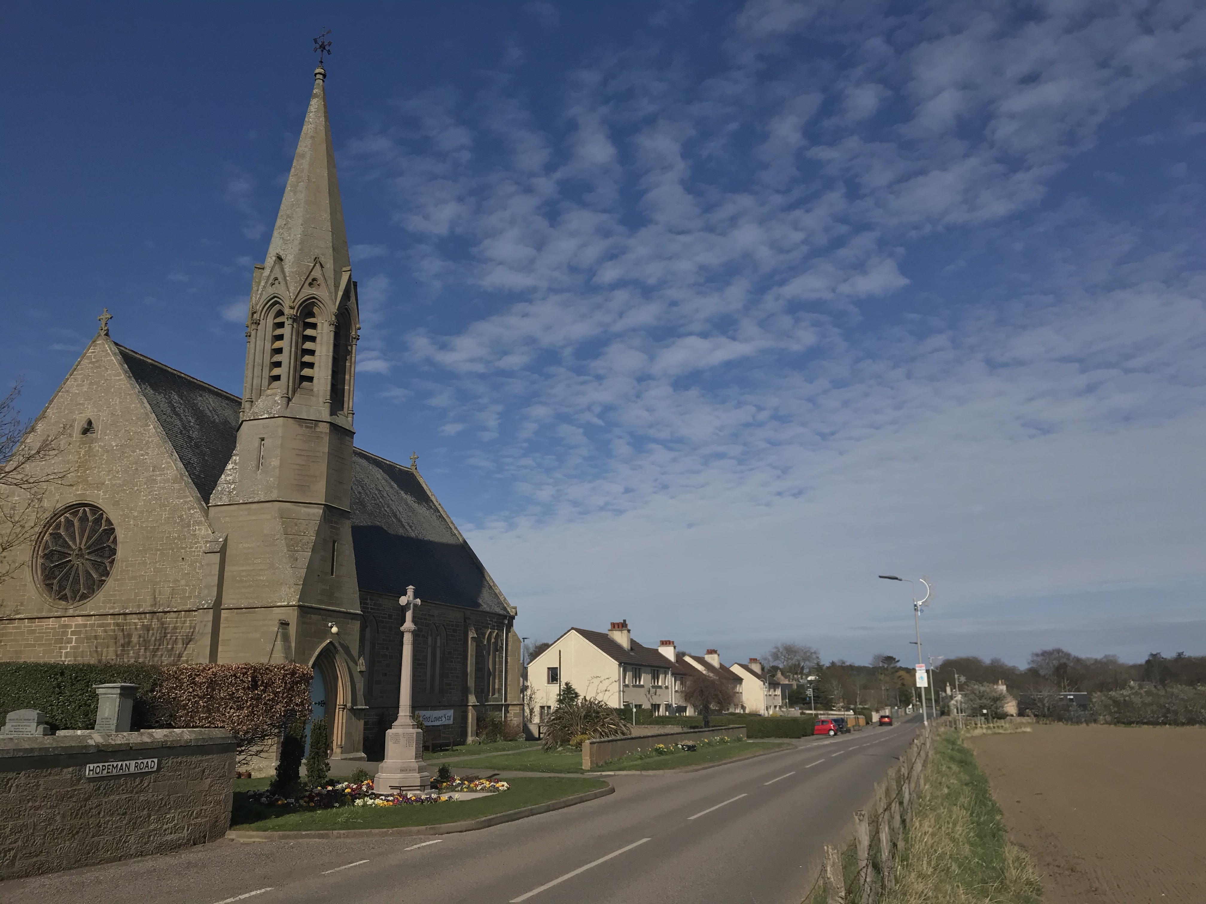 A view of Duffus village taken from a field near the Kirk, on April the 13th 2020. The road shown is Hopeman Road, which in the direction shown leads to Elgin.